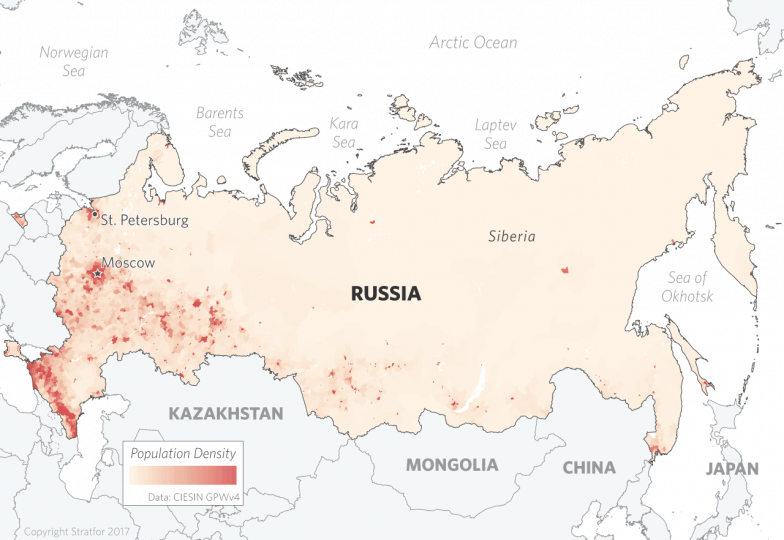 Population Density in Russia and Ukrainian Crimea